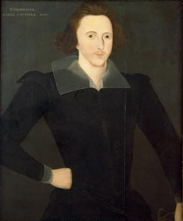 Portrait inscribed as Theophilus Howard, 2nd Earl of Suffolk (1584-1640), possibly it is a portrait of his father, Thomas Howard, 1st Earl of Suffolk (1561-1626).